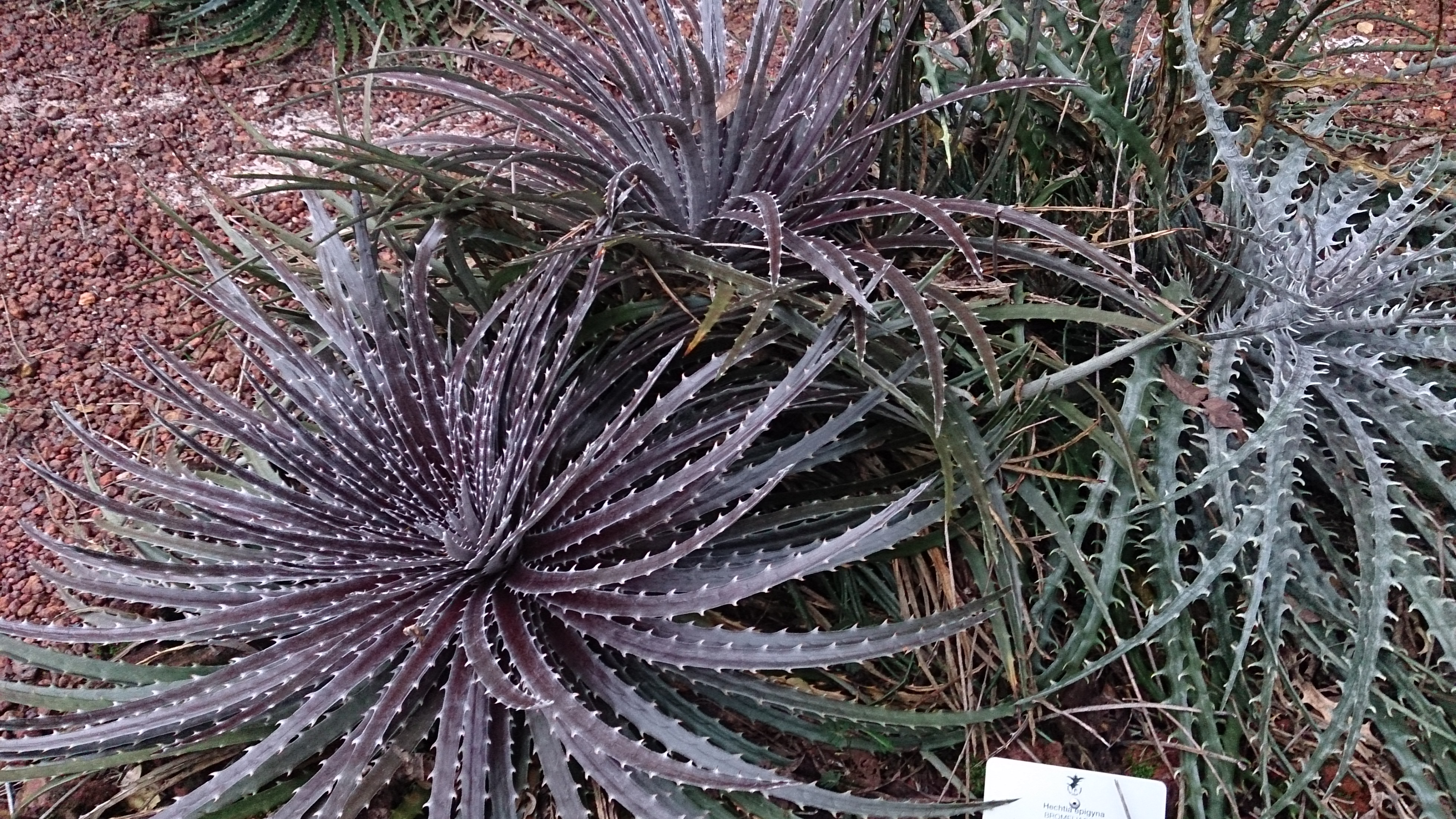 Hechtia epigyna